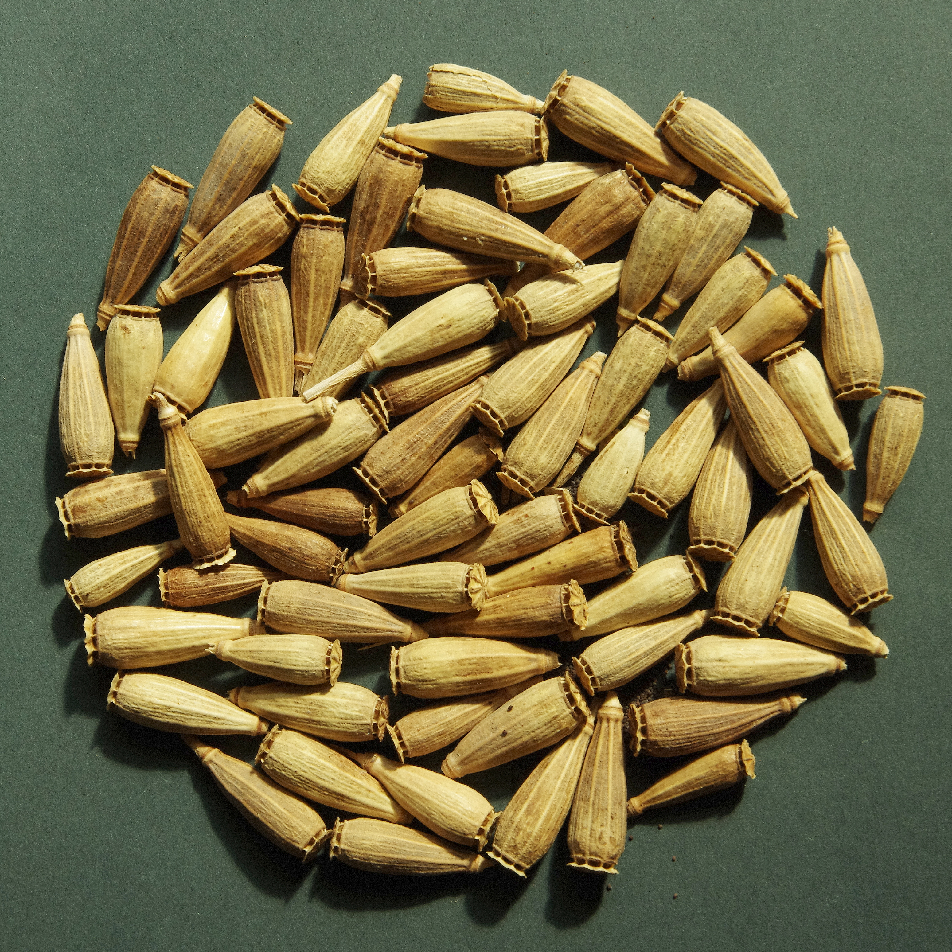 Papaver dubium capsules